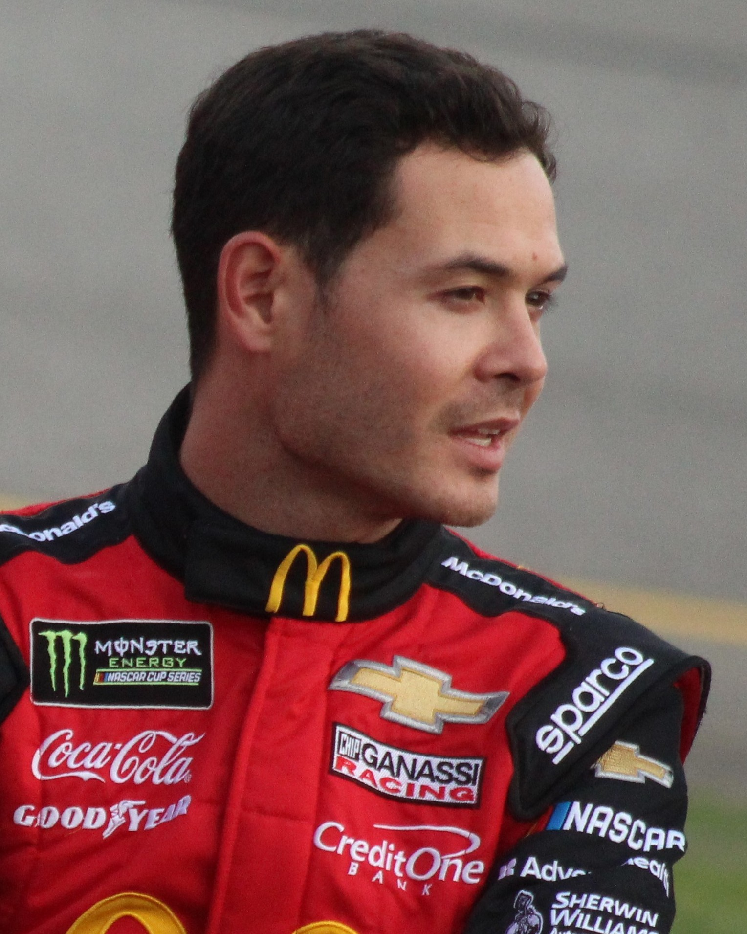 2019 Toyota Owners 400